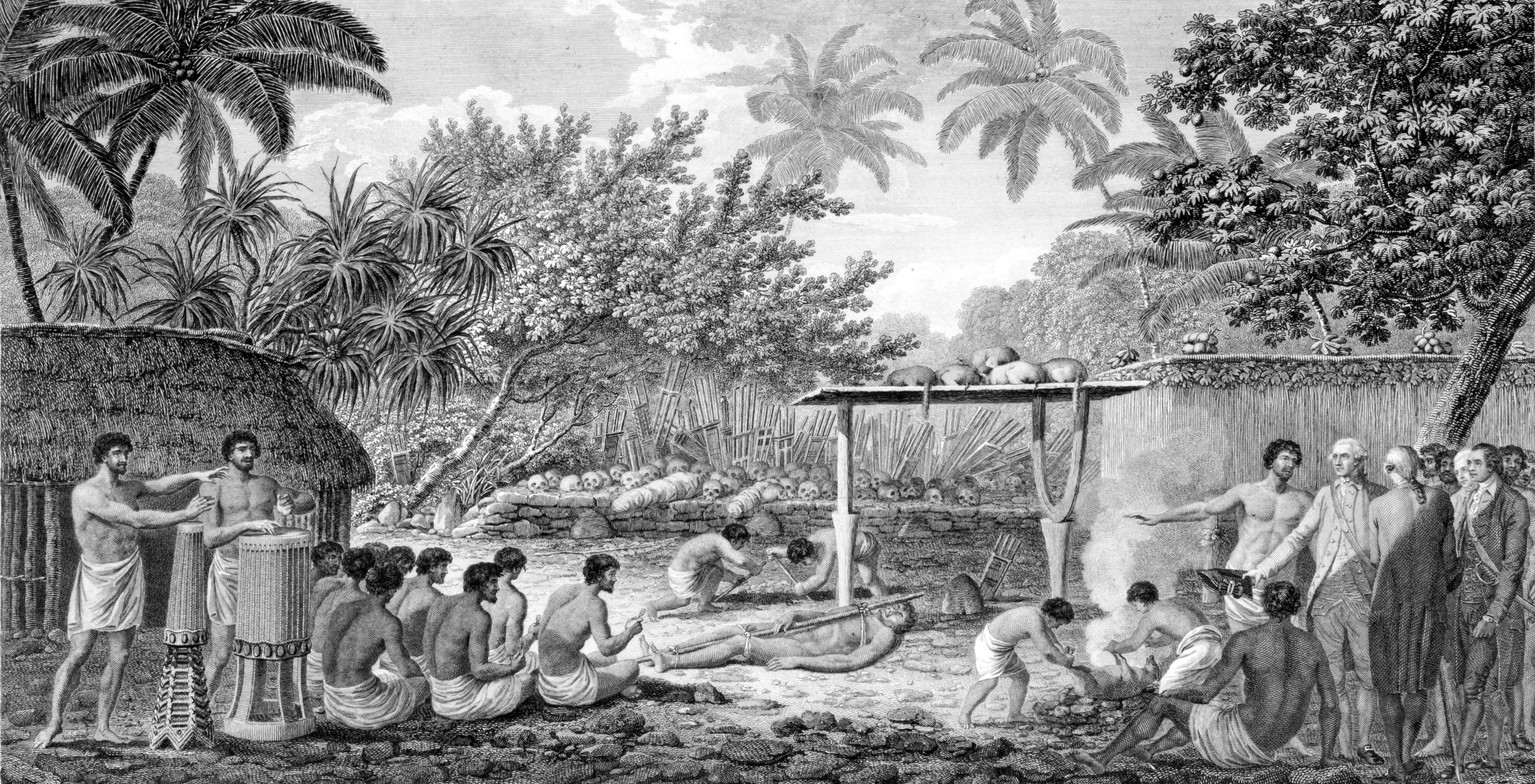 James Cook, English navigator, witnessing human sacrifice in Taihiti (Otaheite) c. 1773. Engraving from an 1815 edition of Cook's 'Voyages'